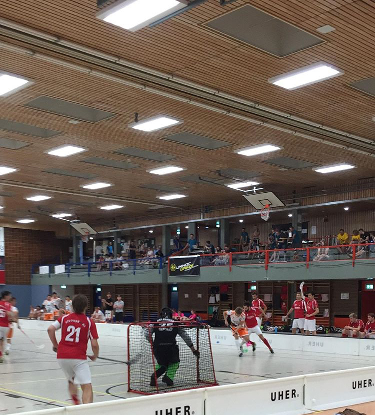 Floorball Game, Lumberjacks Rohrdorf against ETV Piranhhas Hamburg 2